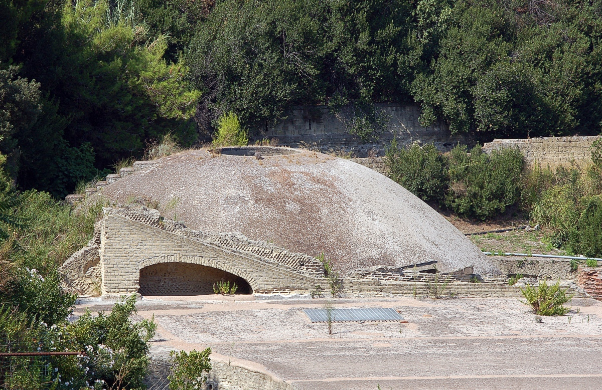 Compex of the roman thermapbath